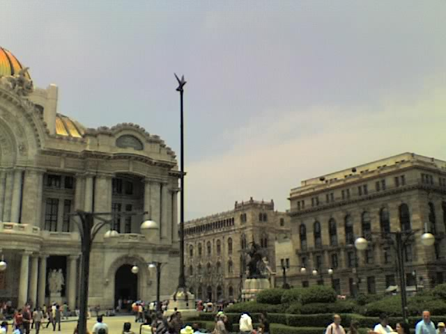 View of the Palaces of Bellas Artes and Correos and the Bank of Mexico.